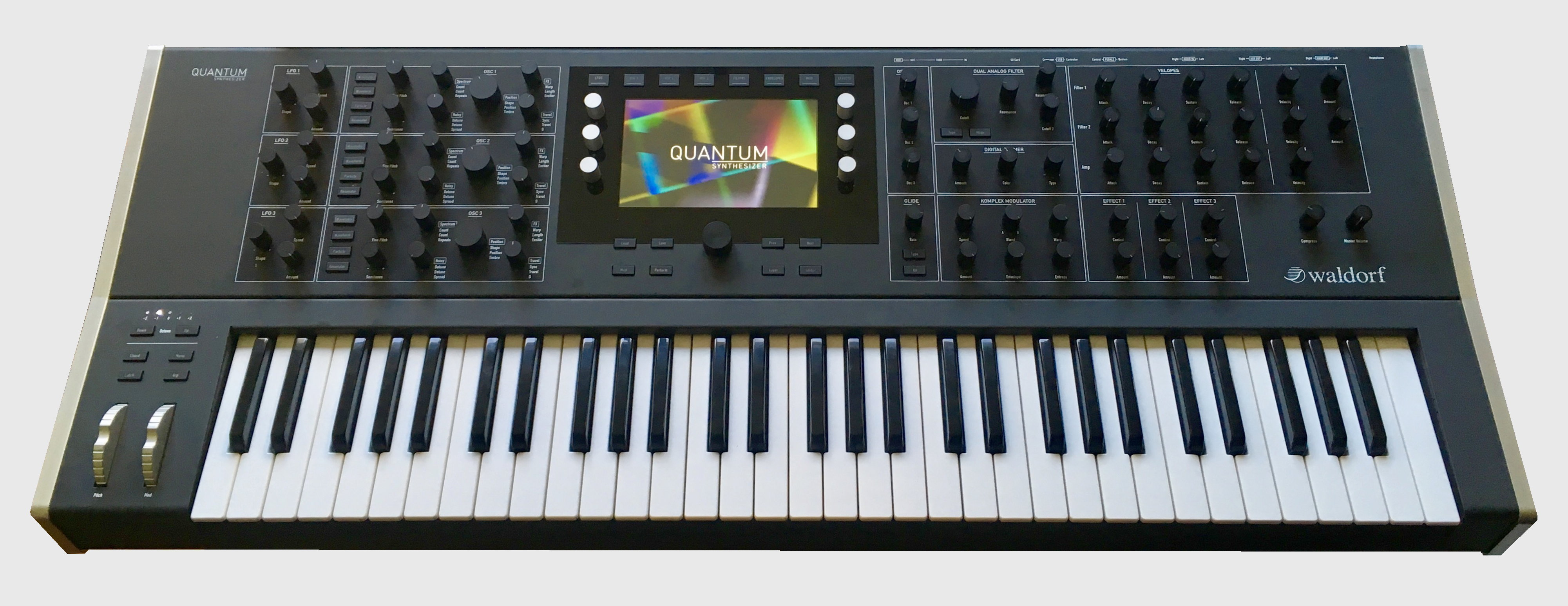 Frontpanel of the Waldorf Quantum Synthesizer